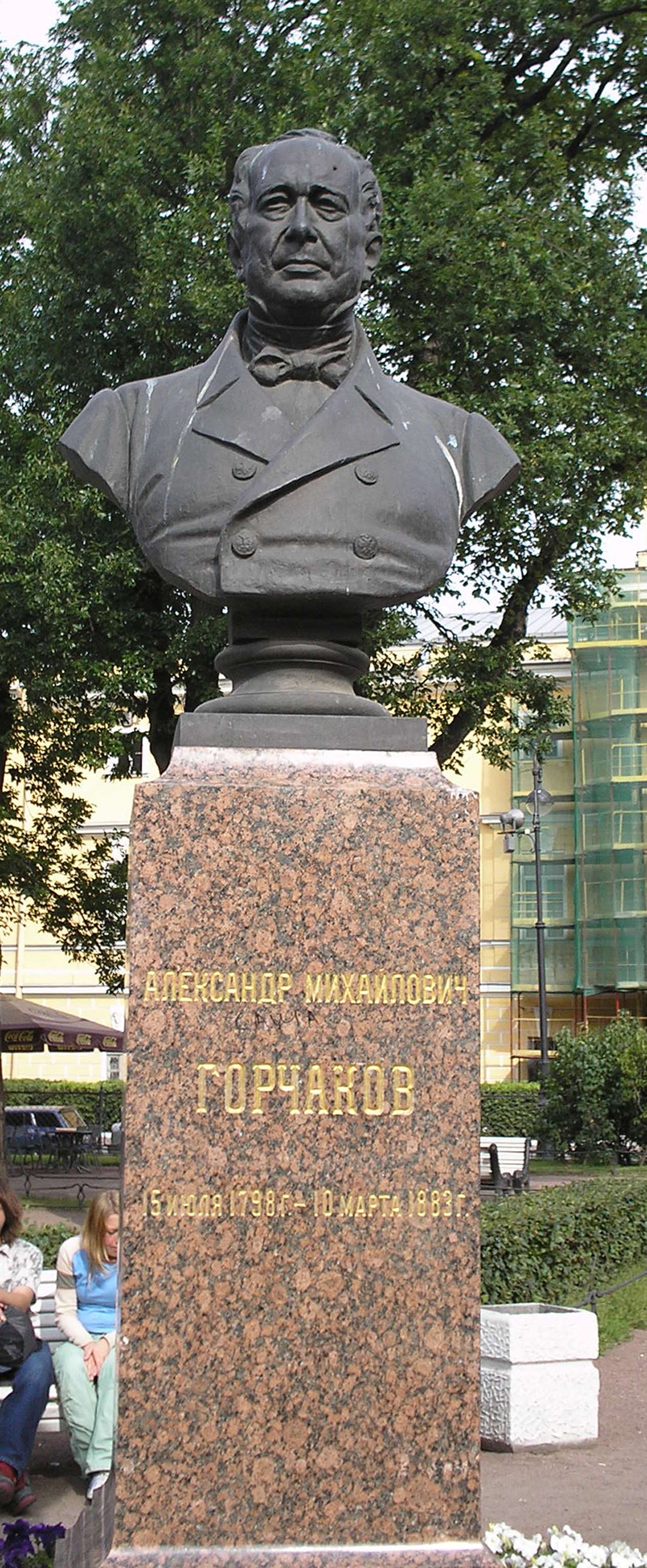 Bust of Alexander Mikhailovich Gorchakov (1798–1883) in St. Petersburg